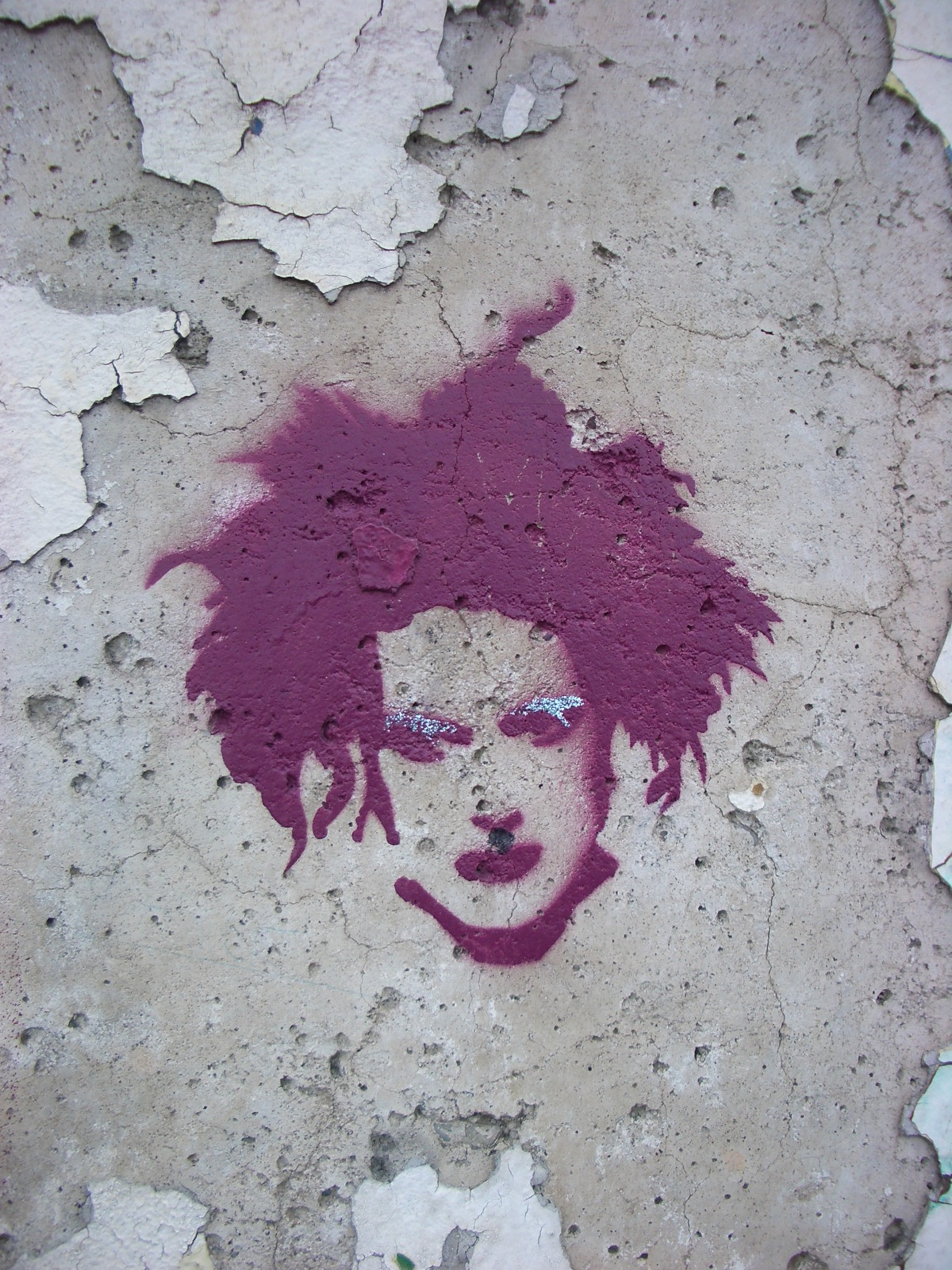 Robert_Smith painted on the wall